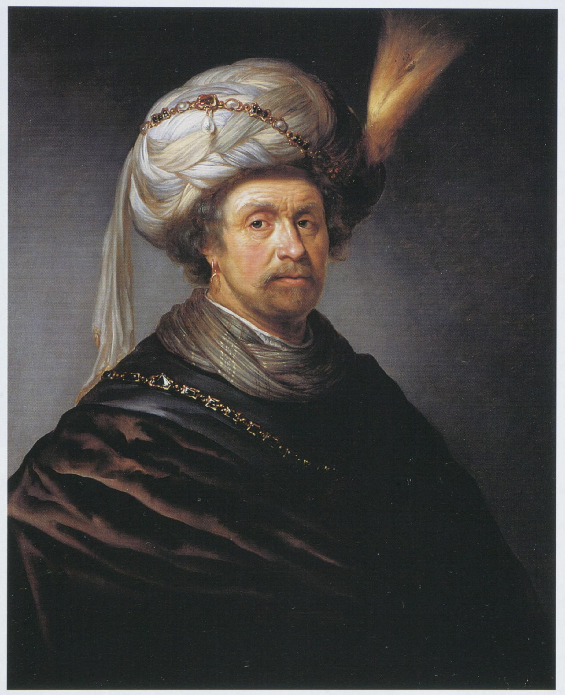 Portrait of a Man, bust length, wearing a plumed turban, and a brown cloak decorated with a chain of office